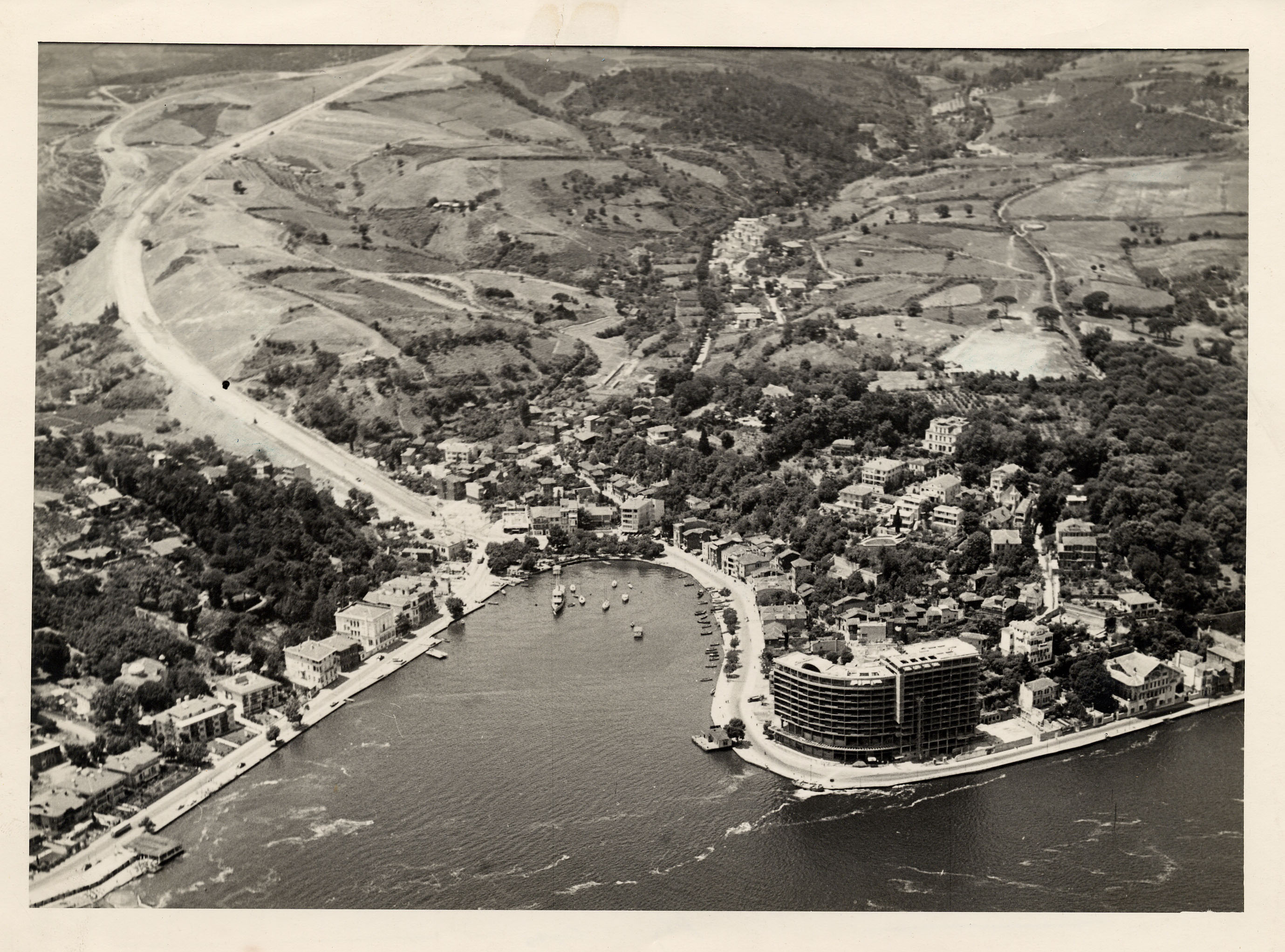 An aerial view of Tarabya, İstanbul Photographer Hilmi Şahenk SALT Research, Photograph Archive Tarabya'nın havadan görünümü, İstanbul Fotoğrafçı Hilmi Şahenk SALT Araştırma, Fotoğraf Arşivi